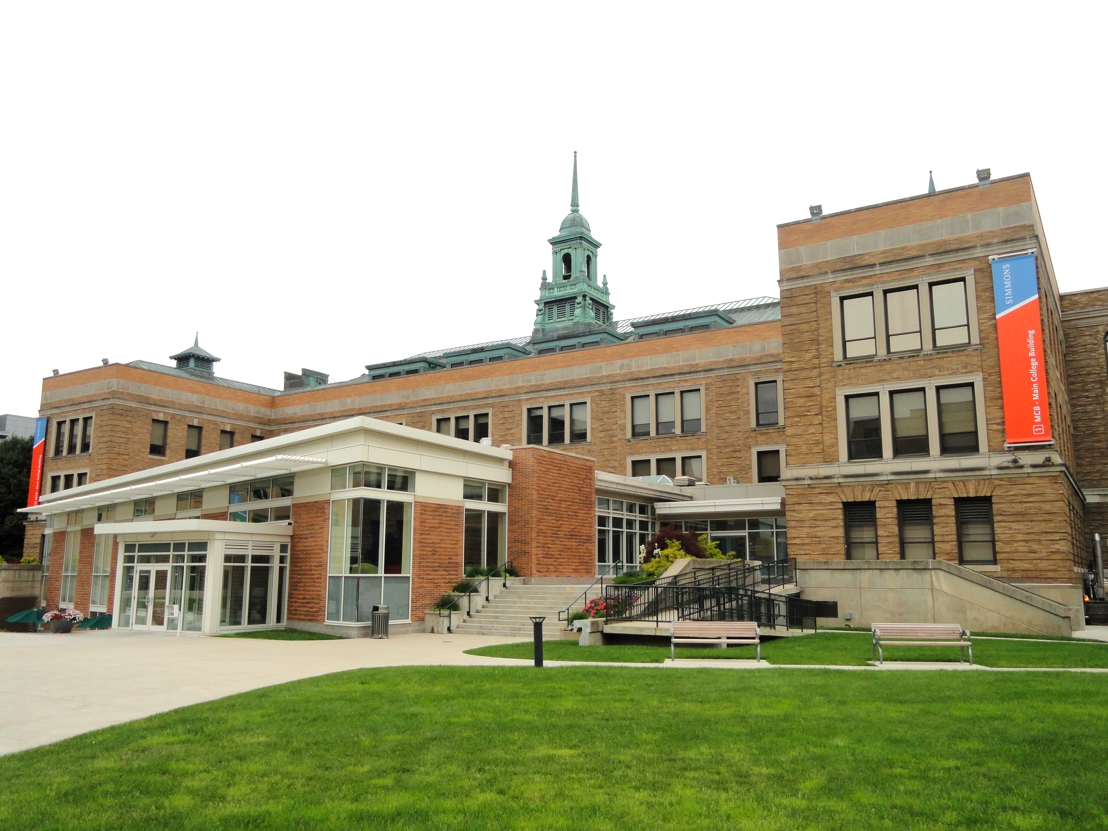 Simmons College, 300 The Fenway, Boston, Massachusetts, USA. Main College Building.